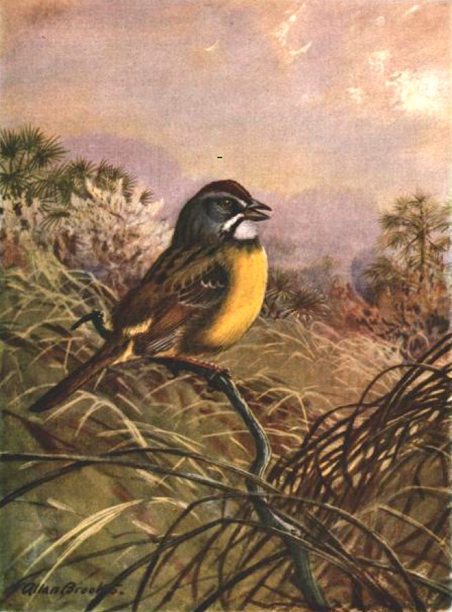 Zapata Sparrow (Torreornis inexpectata): head, bill, wing, leg and tail